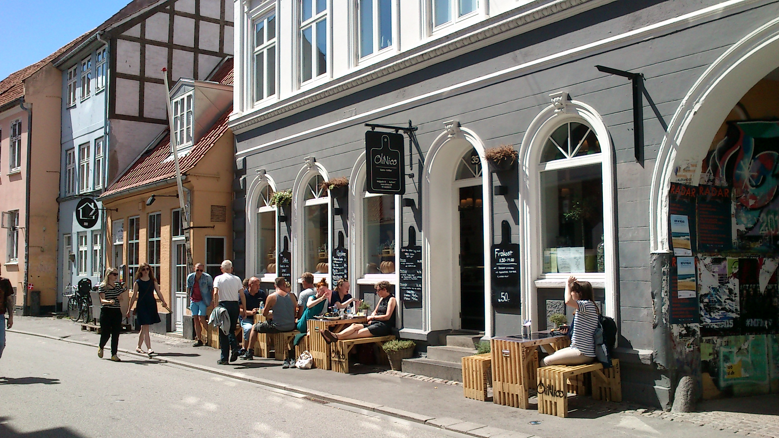 Oli Nico restaurant and Skt. Oluf restaurant (yellow)